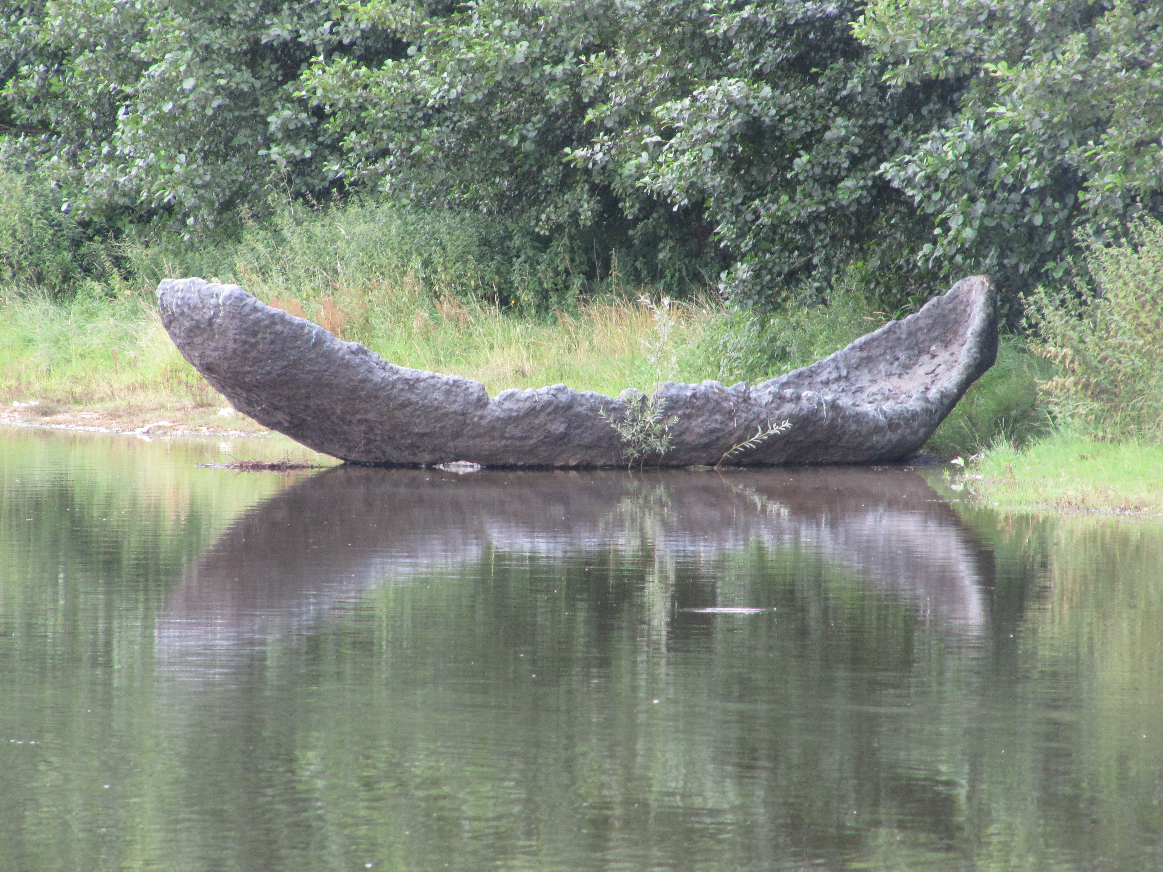 Sculpture "Boot 2006" by Armando at the banks of the Waterplein in De Bron in Vathorst, Amersfoort, The Netherlands